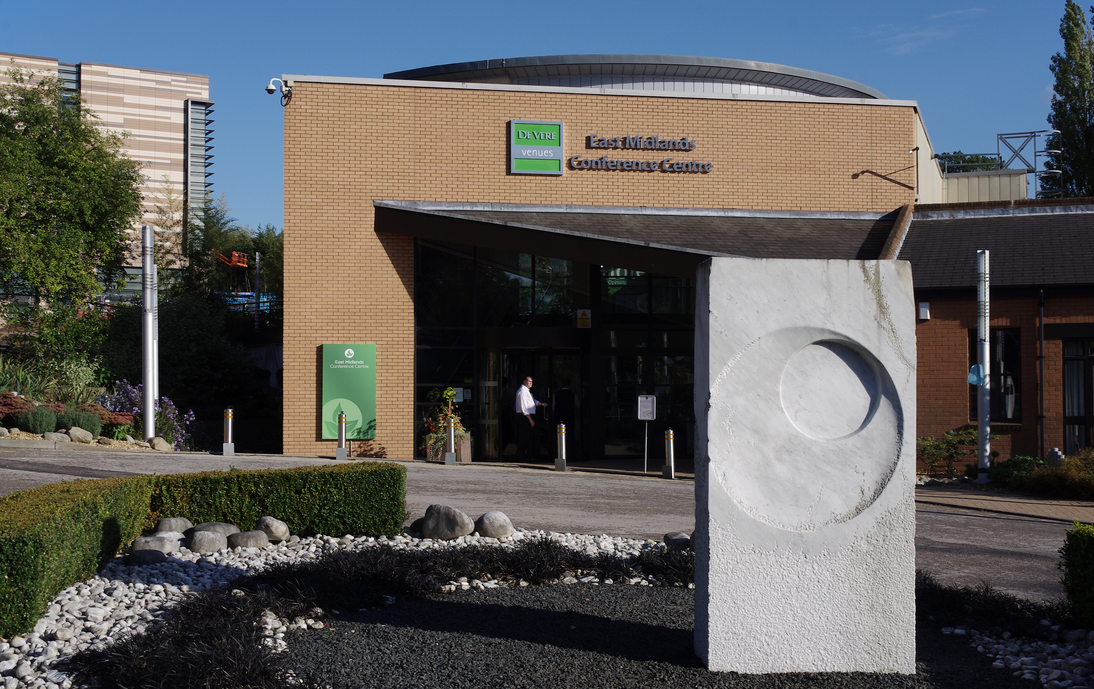 The East Midlands Conference Centre on University Park, Nottingham.